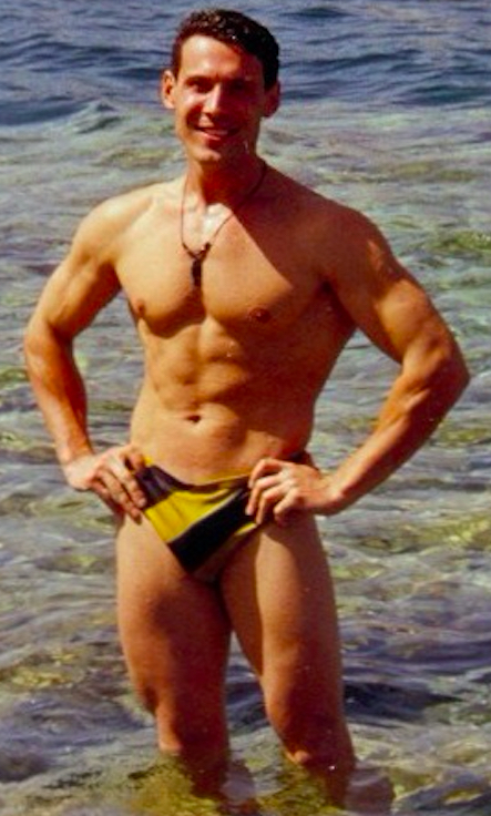 Cropped version of File:Albert Cordina 1.jpg